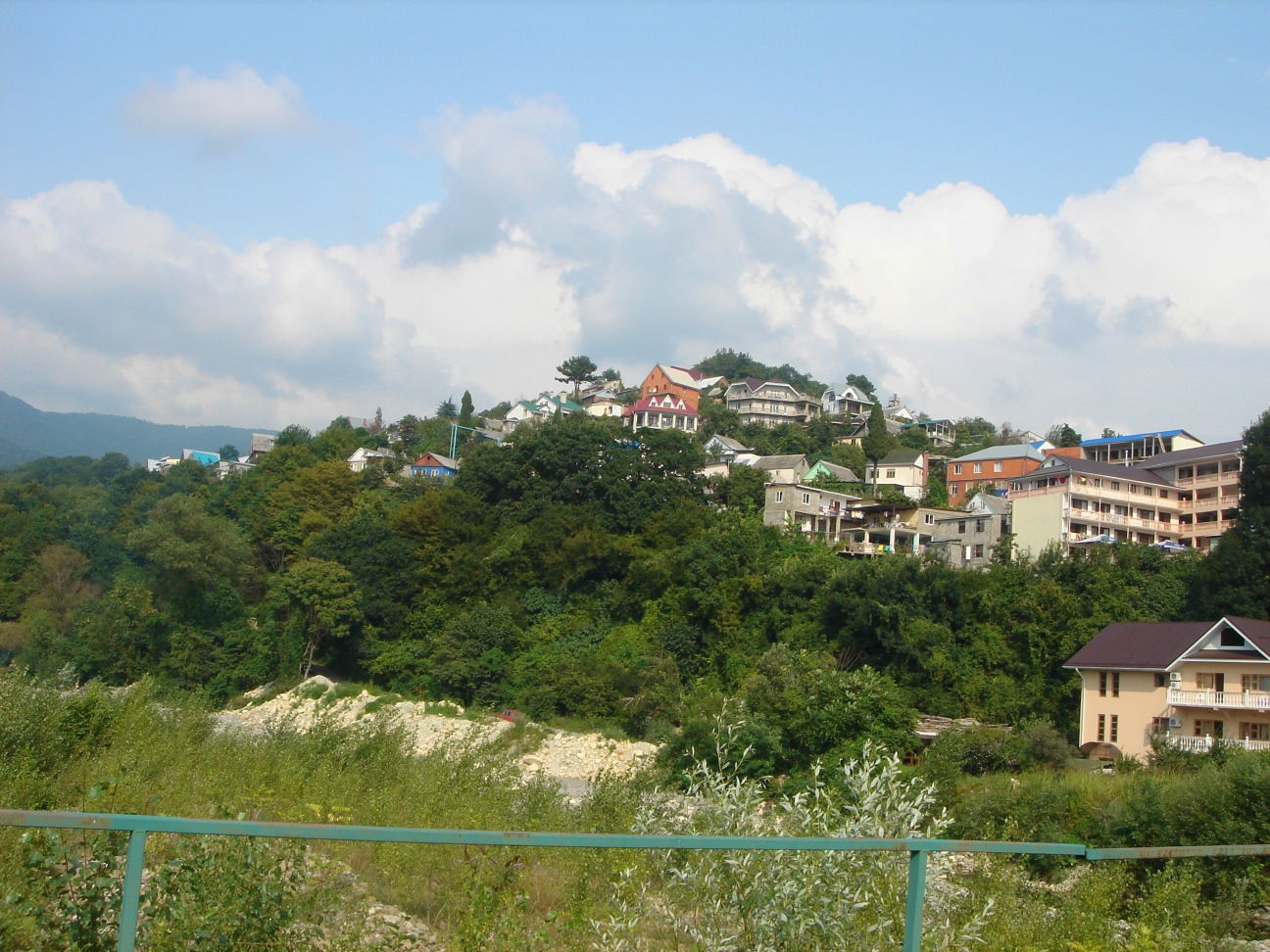 Mount in Lazarevskoe. Гора в Лазаревском.